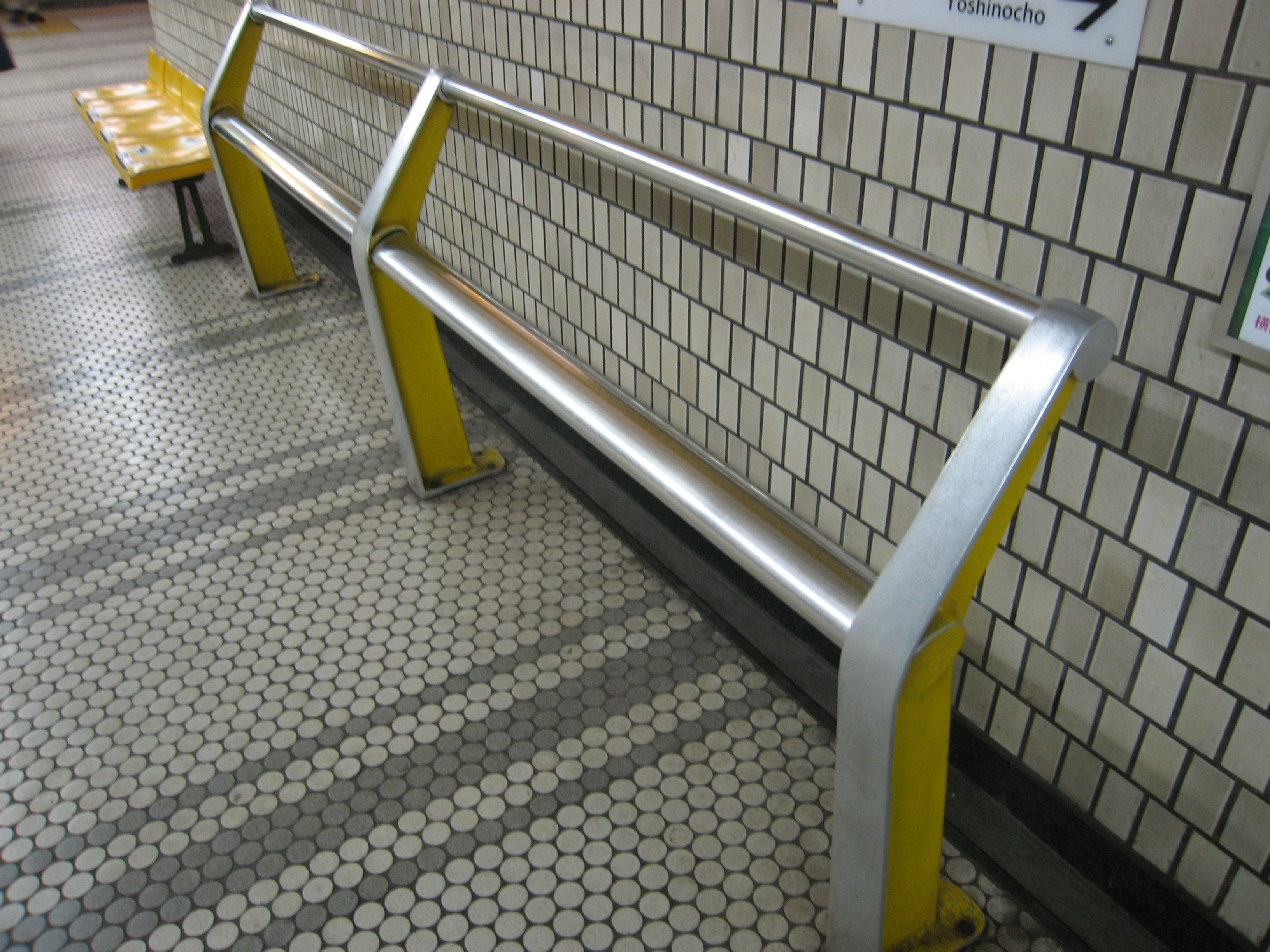 "Backrest supporter" (design by Sori Yanagi 1973) Yokohama Municipal Subway , Yokohama, Japan